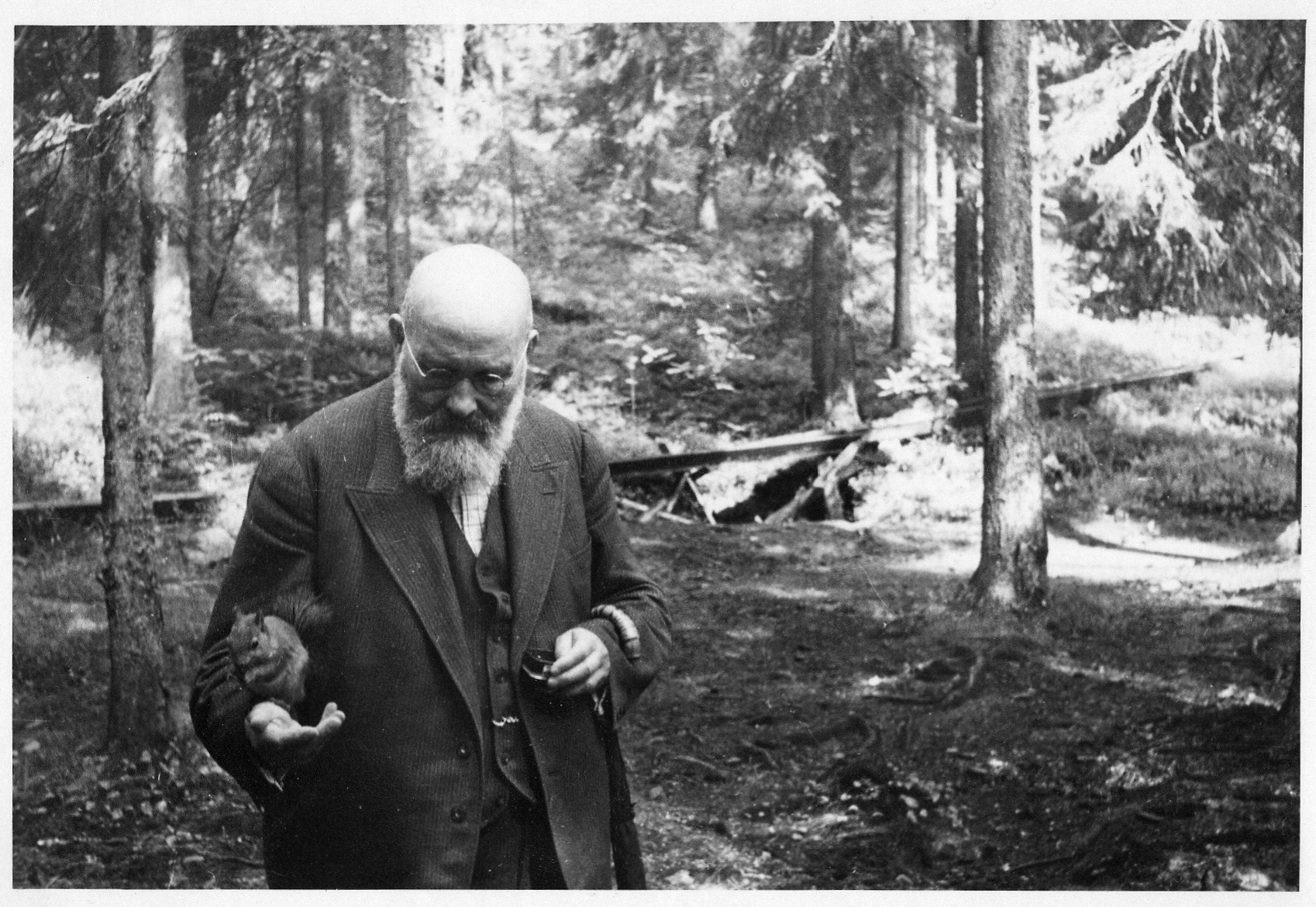 Heinrich Jakob Goldschmidt (* 12. April 1857 in Prag; † 20. September 1937 in Oslo), holding a squirrel in the Nowegian countryside in the early 1930s